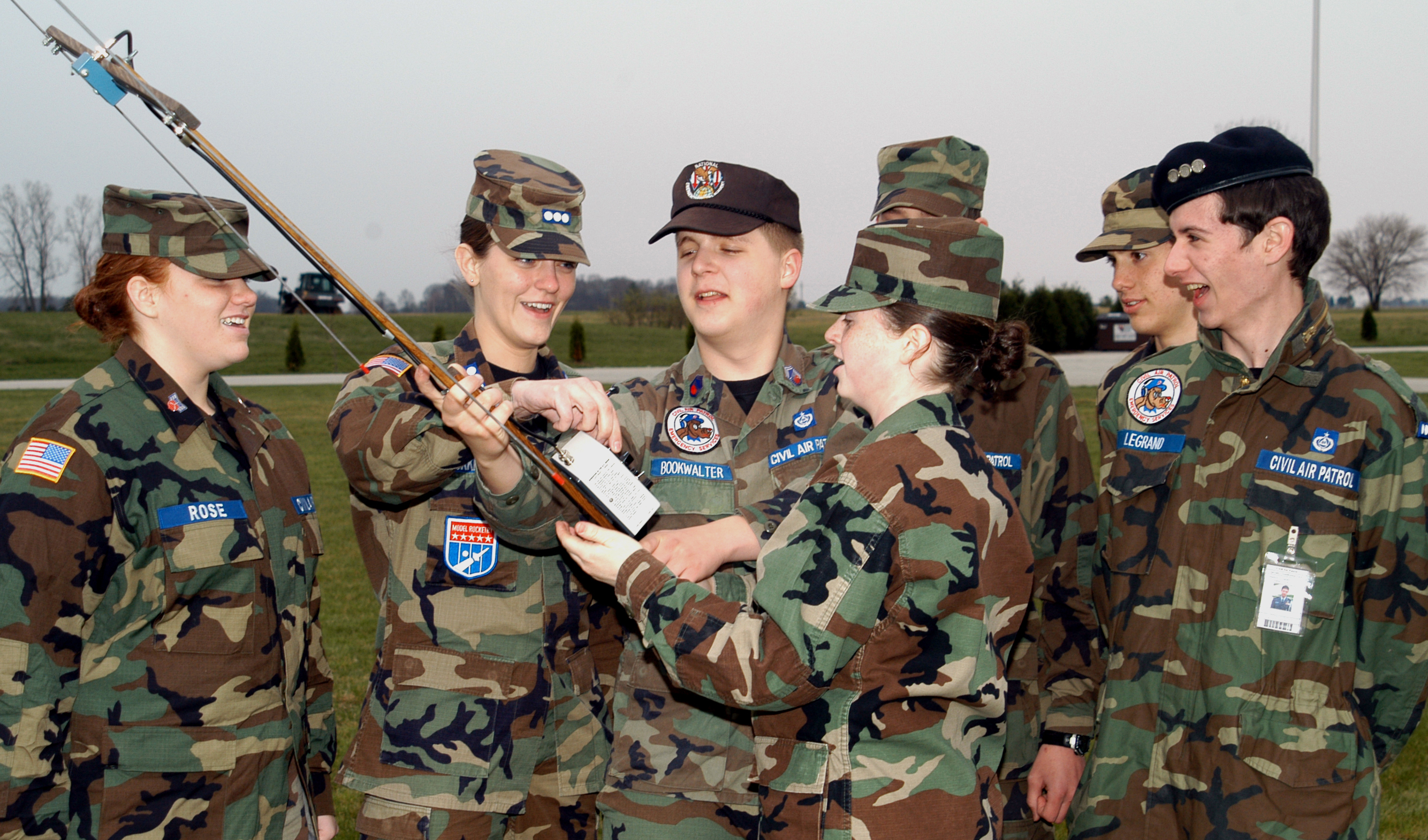 GRISSOM AIR RESERVE BASE, Ind.--Civil Air Patrol Cadets train with direction finding equipment used to locate aircraft distress beacons referred to as ELTs. The Indiana Wing, Civil Air Patrol conducted a two day ground team training exercise at Grissom April 14 and 15. (U.S. Air Force photo/Senior Airman Chris Bolen)